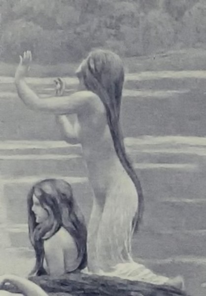 Daybreak ’midst the swans, detail